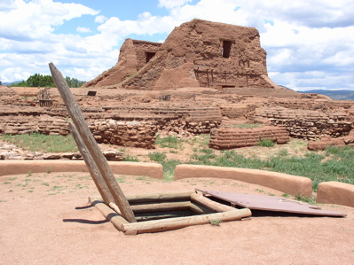 The Mission Nuestra Señora de los Ángeles de Porciúncula de los Pecos mission church, in New Mexico. Located in the present day Pecos National Historical Park. A ca. 1619 colonial Spanish mission built at the Pecos Pueblo. A National Historic Landmark, and on the National Register of Historic Places in San Miguel County. Photo by Matthew A. Lynn